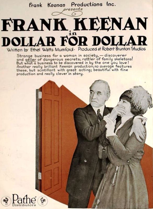 Ad for the American film Dollar for Dollar (1920) with Frank Keenan, page 3602 of the April 17, 1920 Motion Picture News.